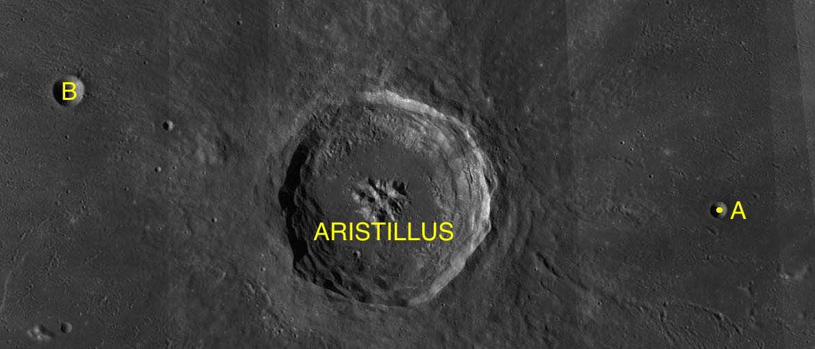 Part of the chart LAC-25 used for the presentation.